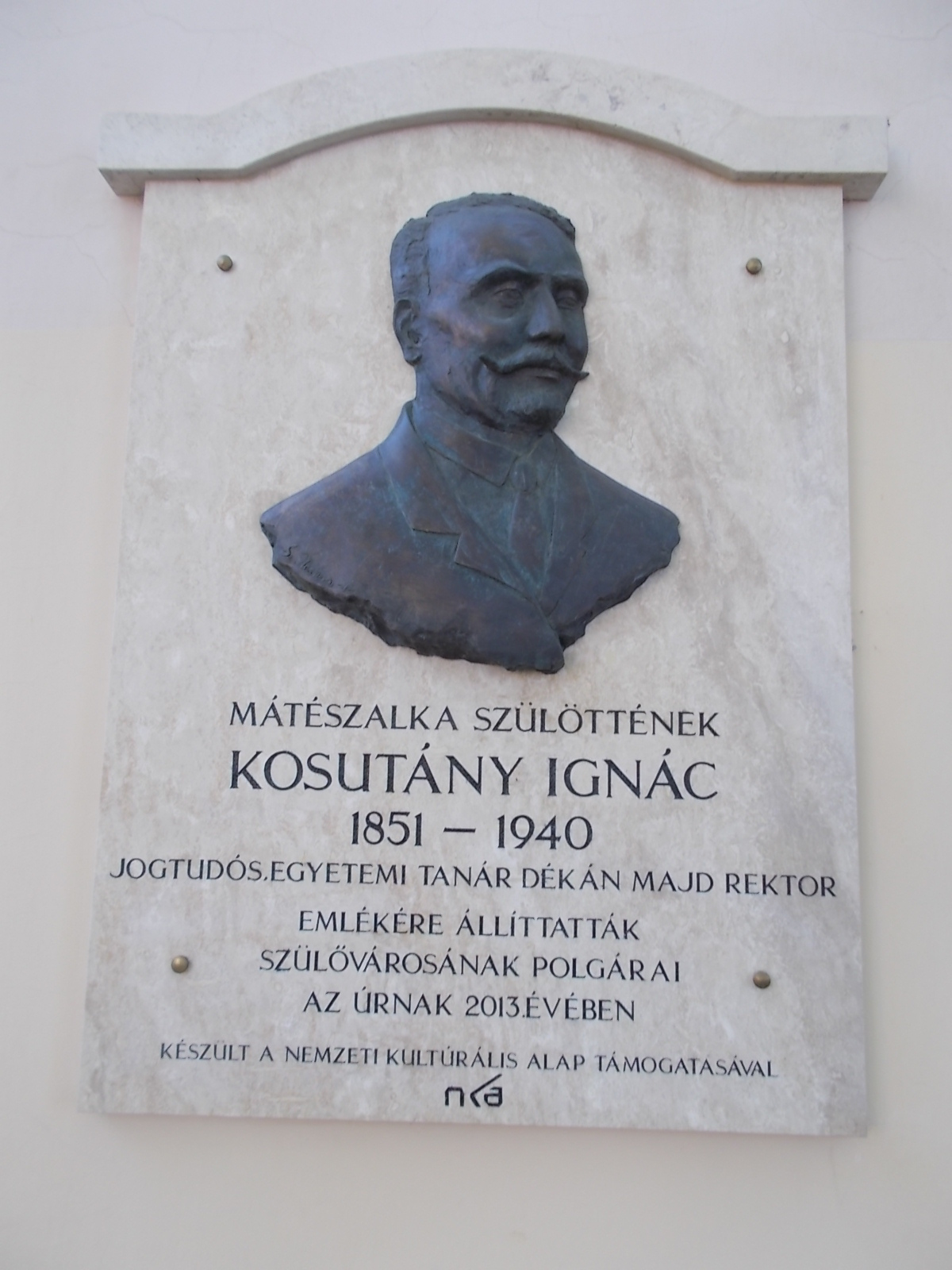 City Court, plaque and Ignác Kosutány plaque-relief by on its facade. - Kossuth Street, Mátészalka, Szabolcs-Szatmár-Bereg County, Hungary.